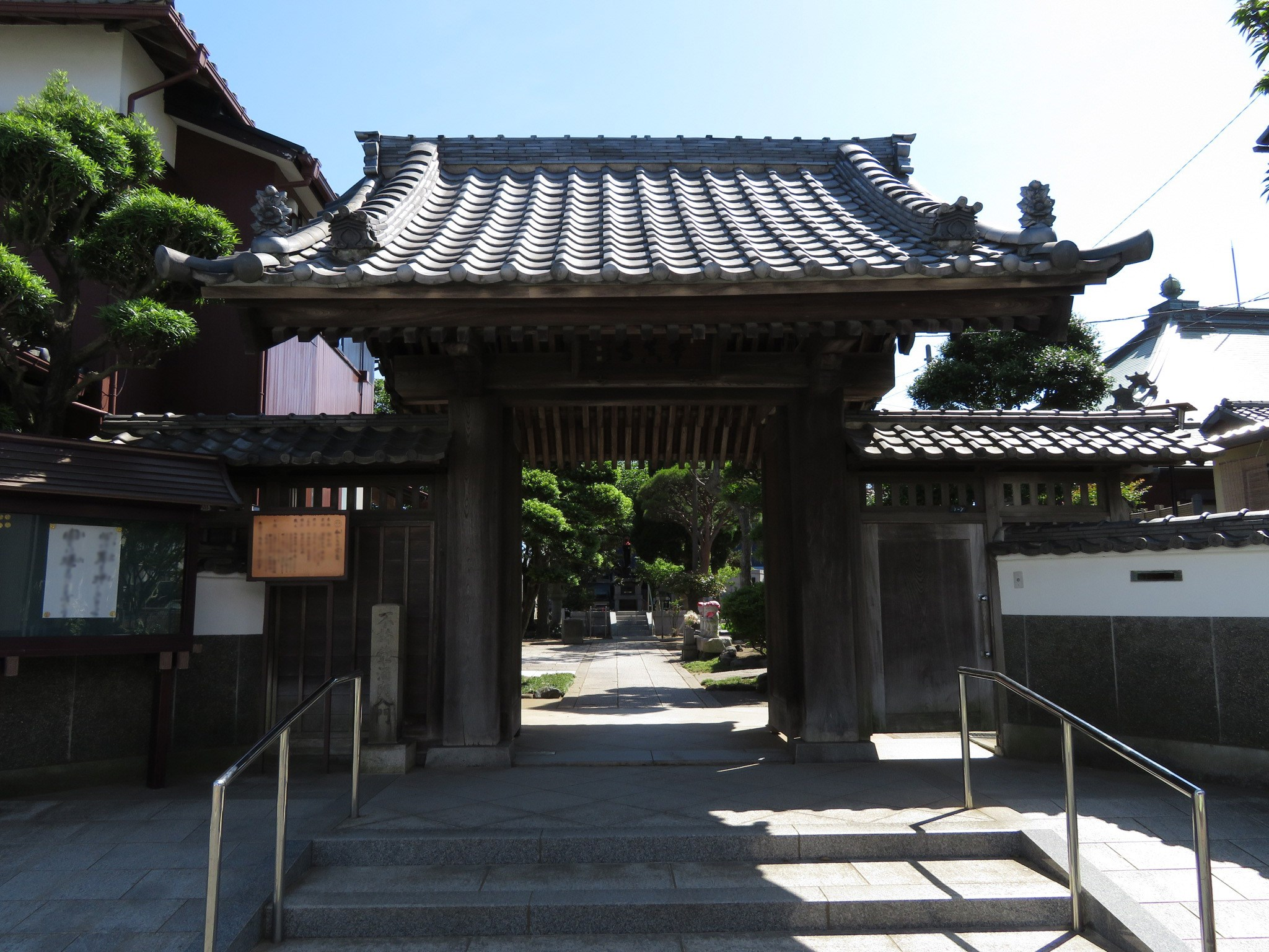 Sanmon at Honshin-ji in Fujisawa City, Kanagawa Prefecture, Japan